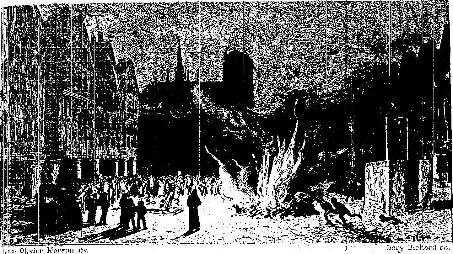 The illustration at the beginning of chapter 2, book 2, from page 93 of Notre-Dame de Paris (The Hunchback of Notre Dame) by Victor Hugo, from the 1889 edition.